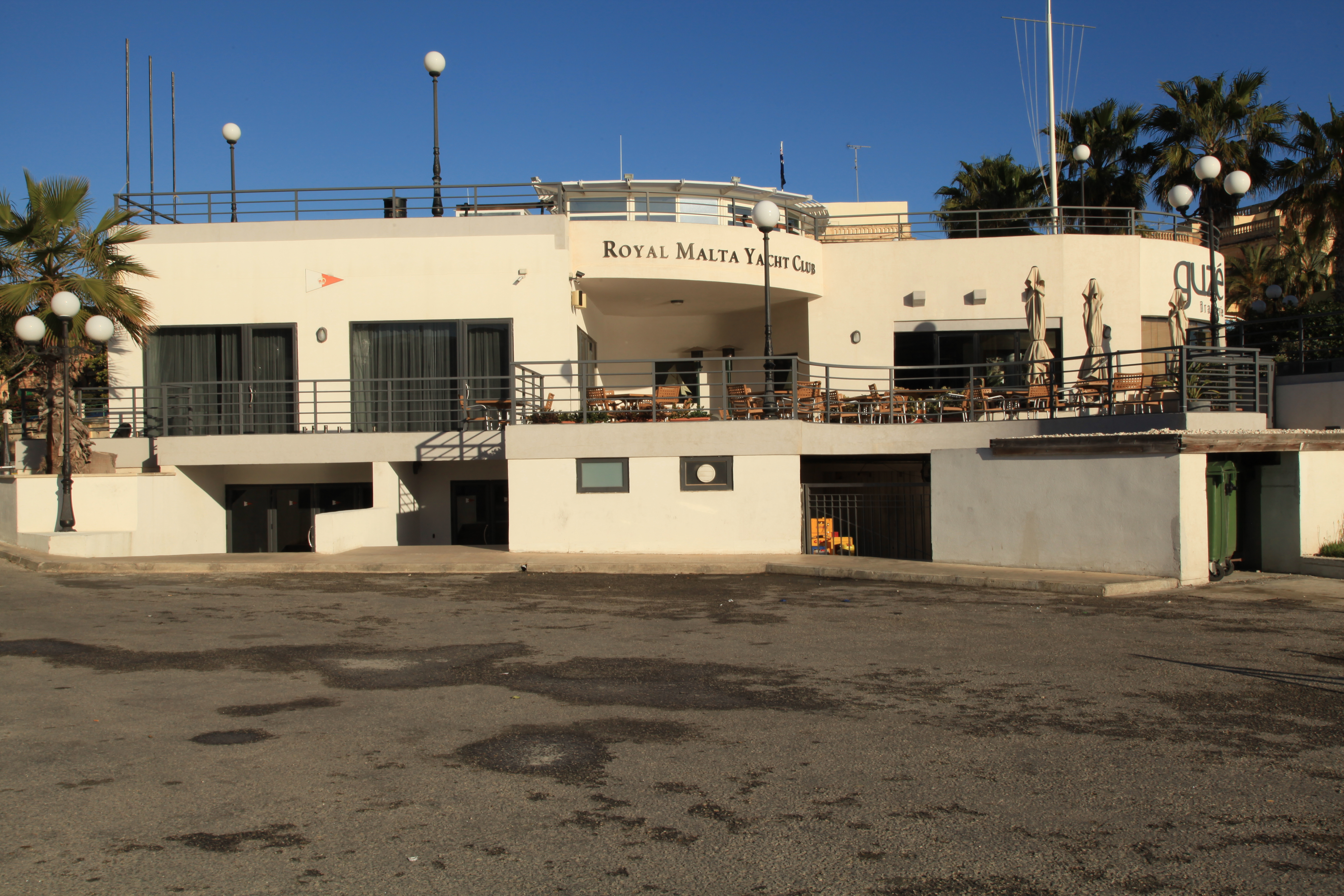 Ix-Xatt Ta' Xbiex in Ta' Xbiex, Malta